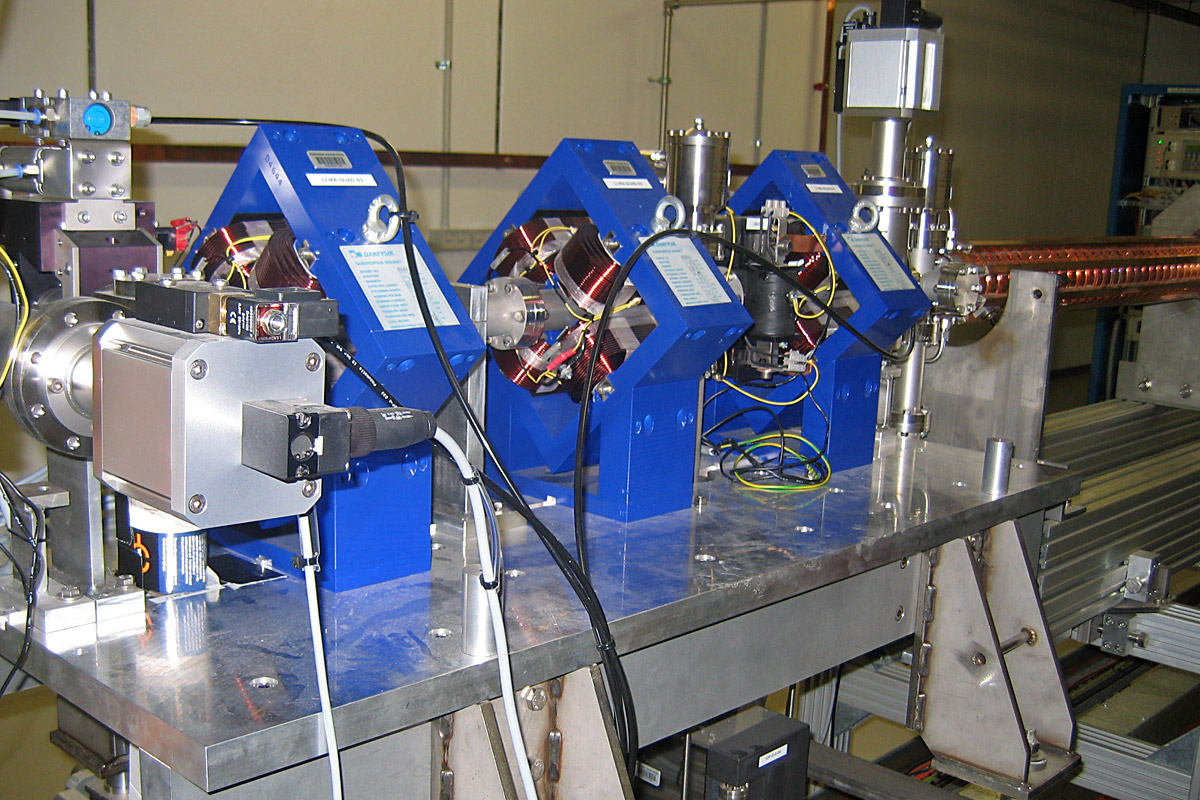 Quadrupole magnets (painted blue) around the linac at the Australian Synchrotron, Clayton, Victoria.